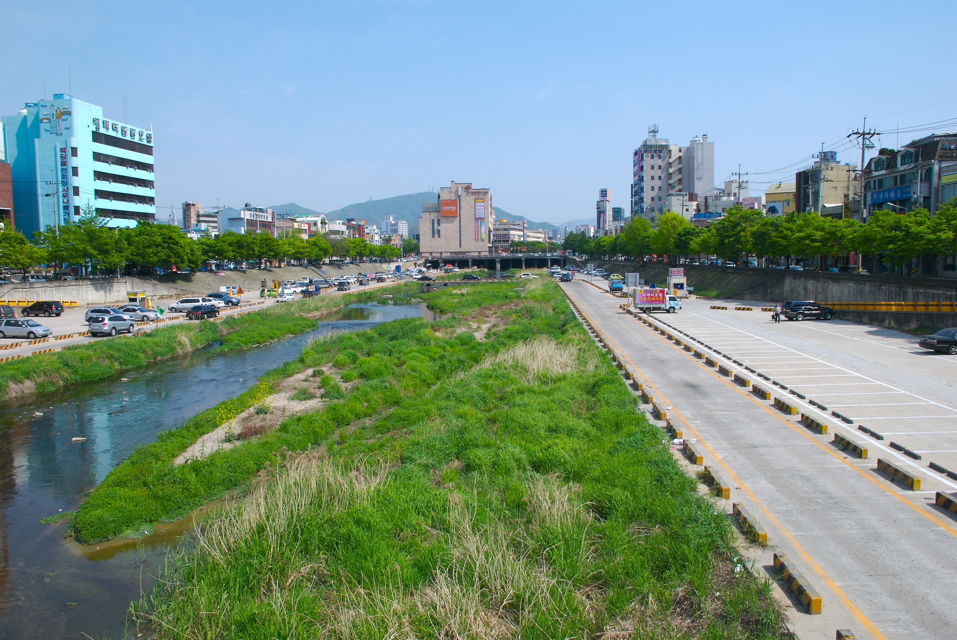 Photograph of Daejeoncheon, a river in Daejeon, South Korea, near Central Street in Dong-gu.